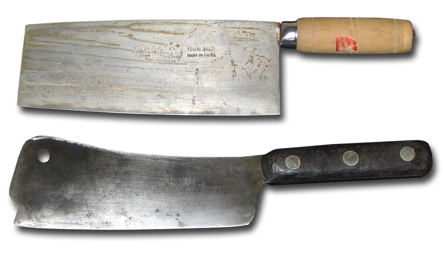 Chinese and old North American cleavers